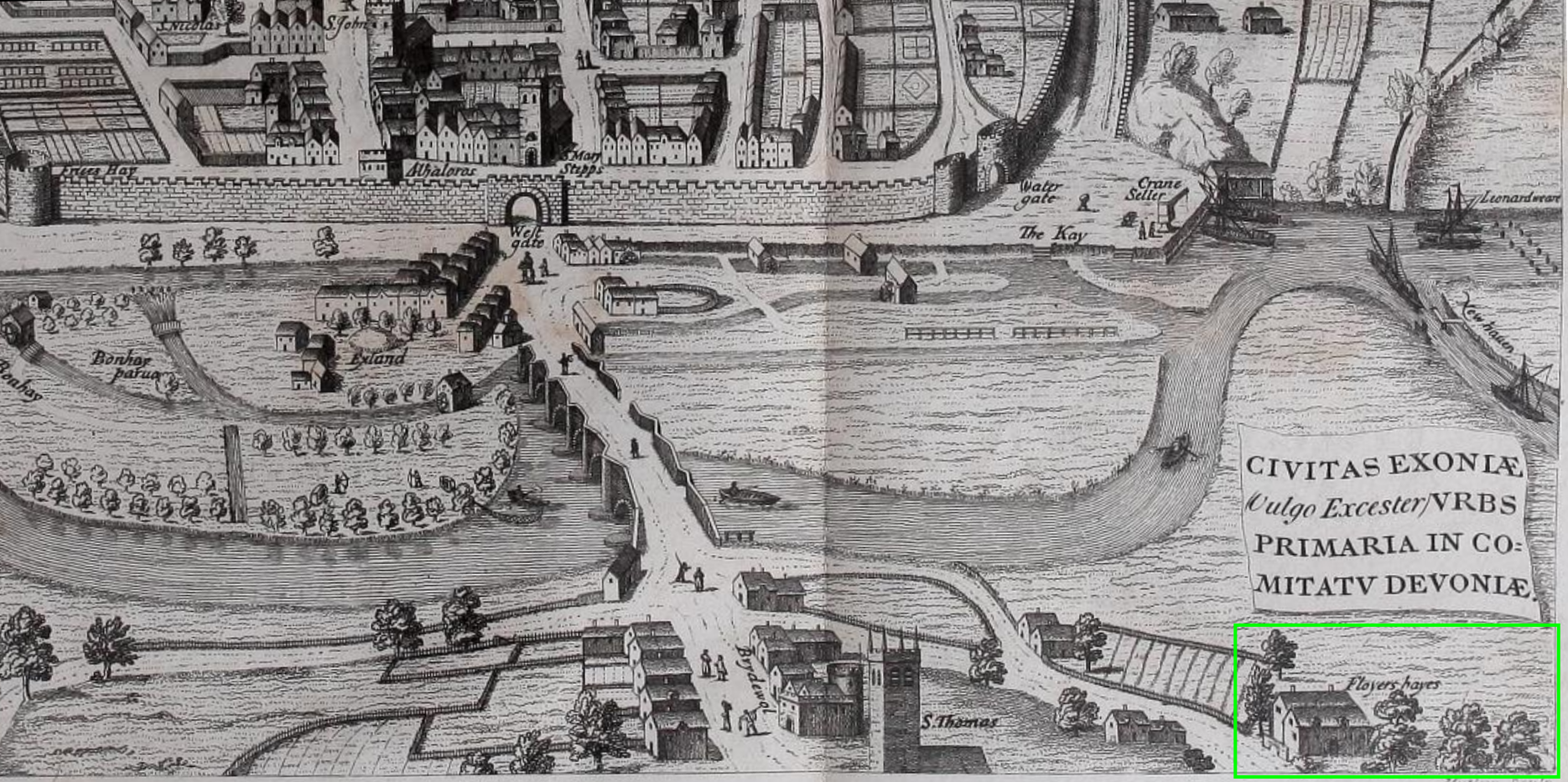 Detail from A drawing of Exeter entitled Civitas Exoniae (vulgo Excester) urbs primaria in comitatu Devoniae in "Civitates Orbis Terrarum", Volume VI, 1617. The work of 6 volumes contains 546 prospects, bird-eye views and map views of cities from all over the world, edited by Georg Braun (1541-1622), a cleric of Cologne, and largely engraved by Franz Hogenberg, published at Cologne, 1572-1617, first volume published in Cologne in 1572, sixth and the final volume appeared in 1617.[1] This map of Exeter Re-published in Lysons, Daniel & Lysons, Samuel, Magna Britannia, Vol.6, Devonshire, London, 1822, p.178[2] Identified on "List of Plates" as "from an old plan in Braun's Civitates Orbis Terrarum 1618"